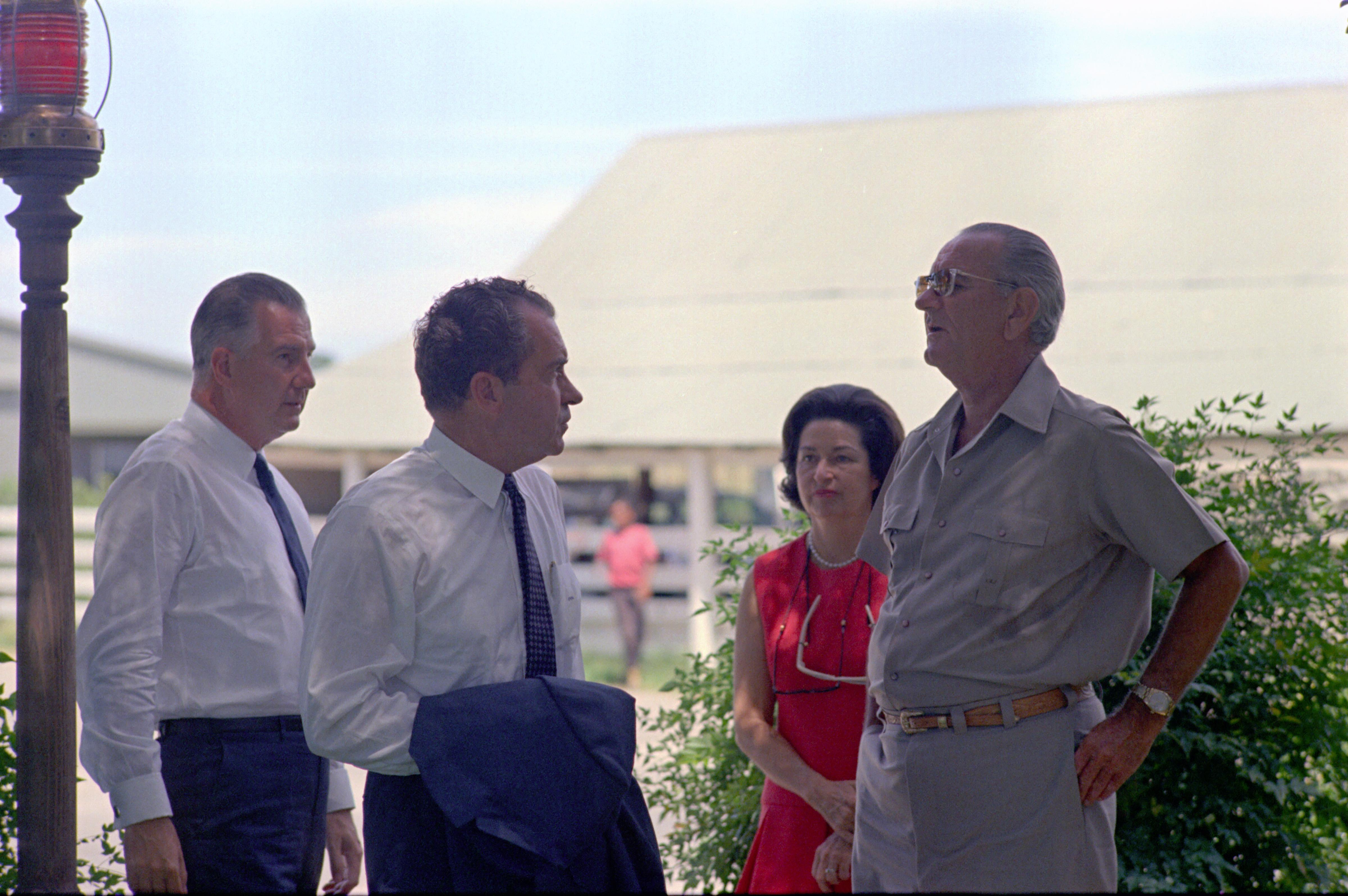 President Lyndon B. Johnson meets with Republican nominees Richard Nixon and Spiro Agnew as First Lady Lady Bird Johnson looks on at President Johnson's ranch in Stonewall, Texas in August 1968.